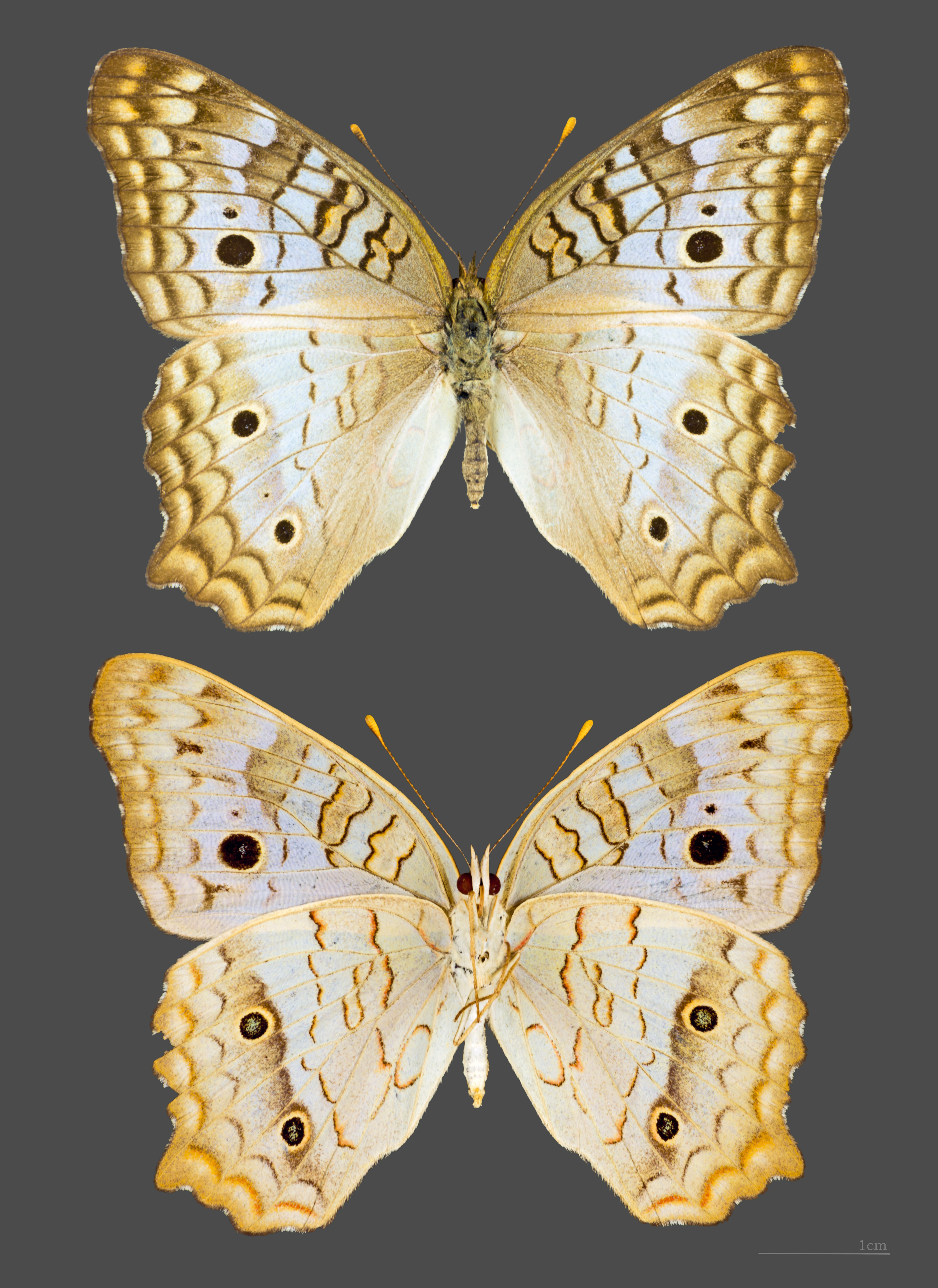 White Peacock, Two views of same specimen.